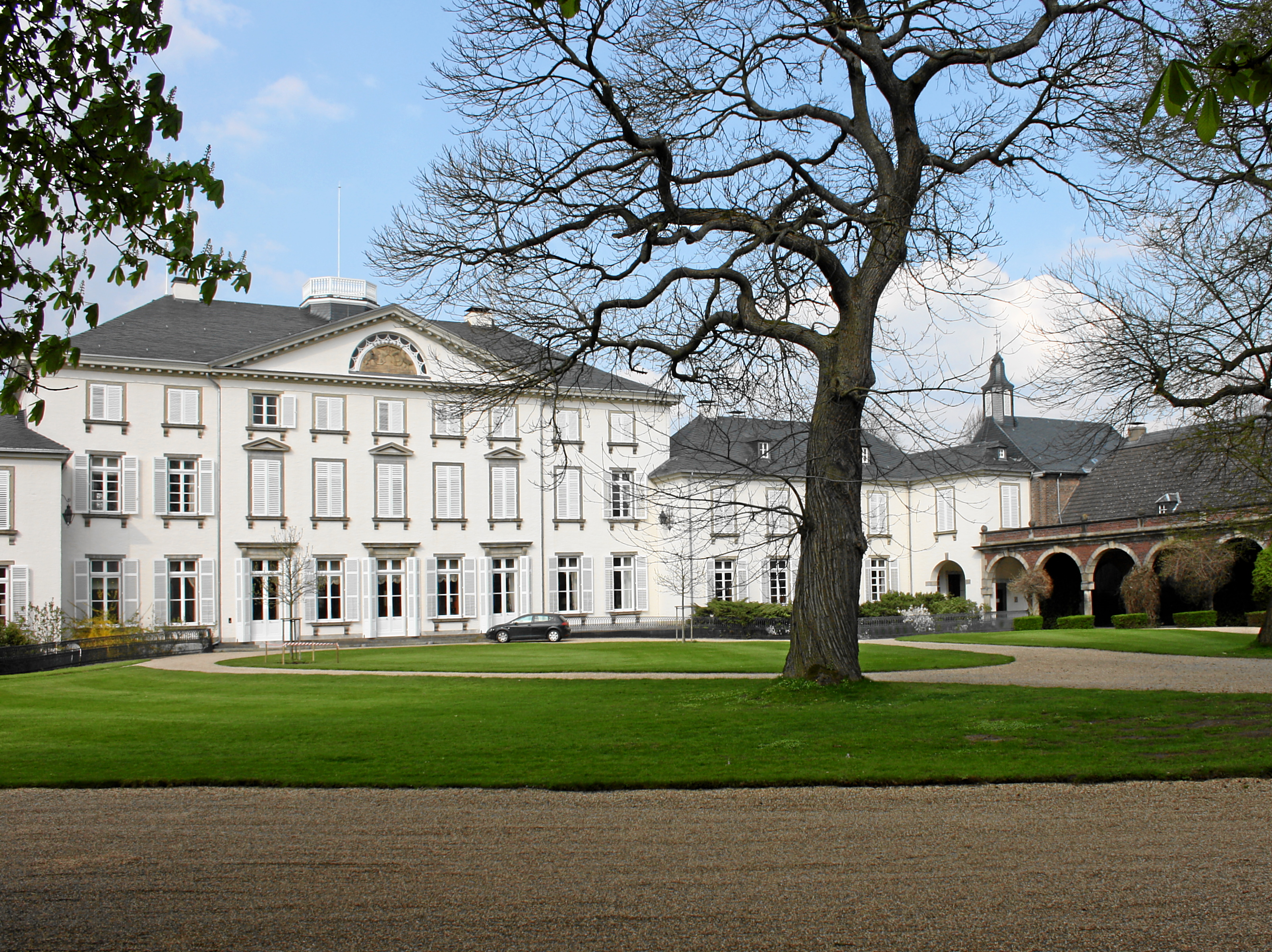 Düsseldorf, Germany. Castle Heltorf, manor house from South (19th century).